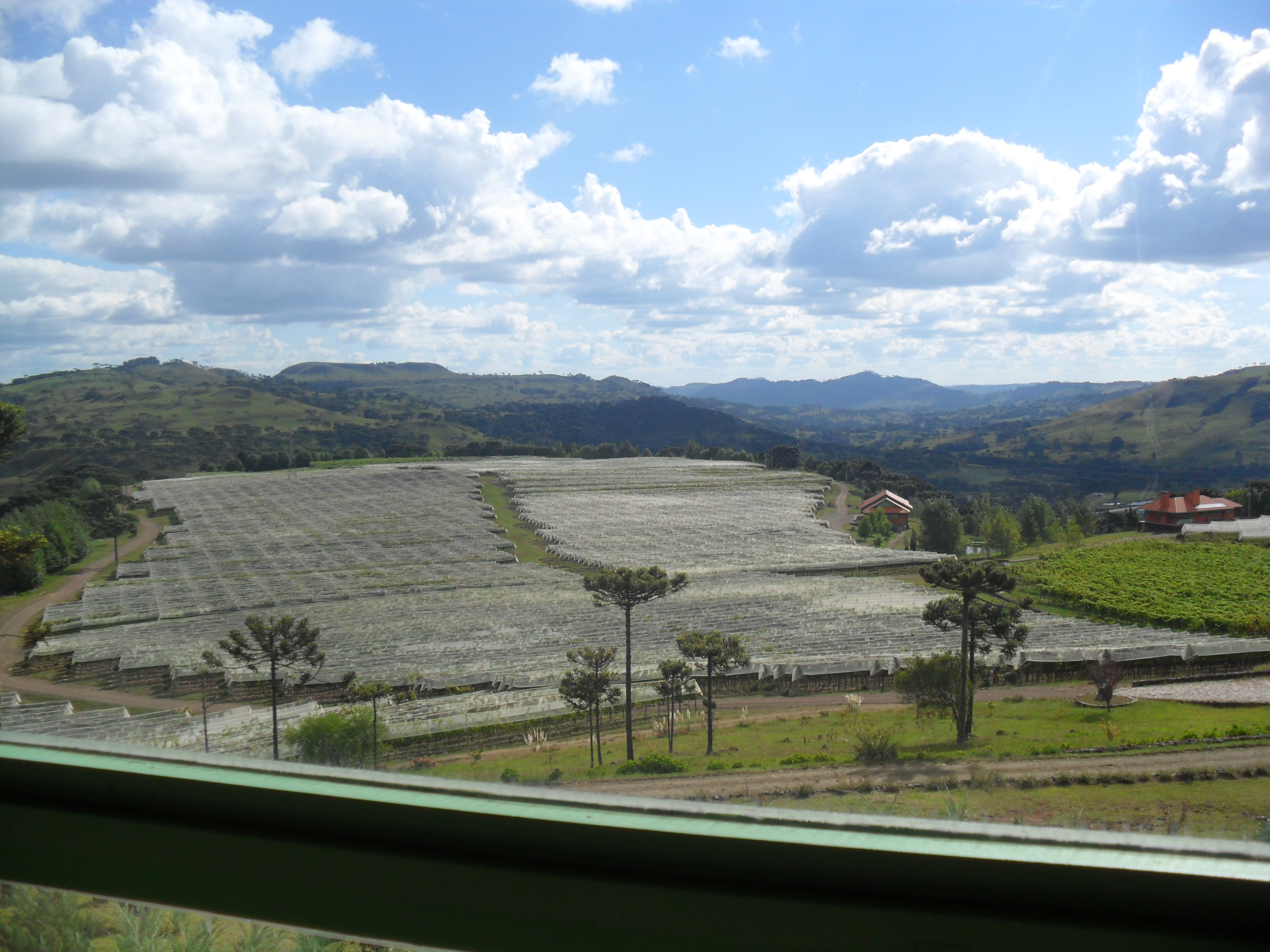 Villa Francioni